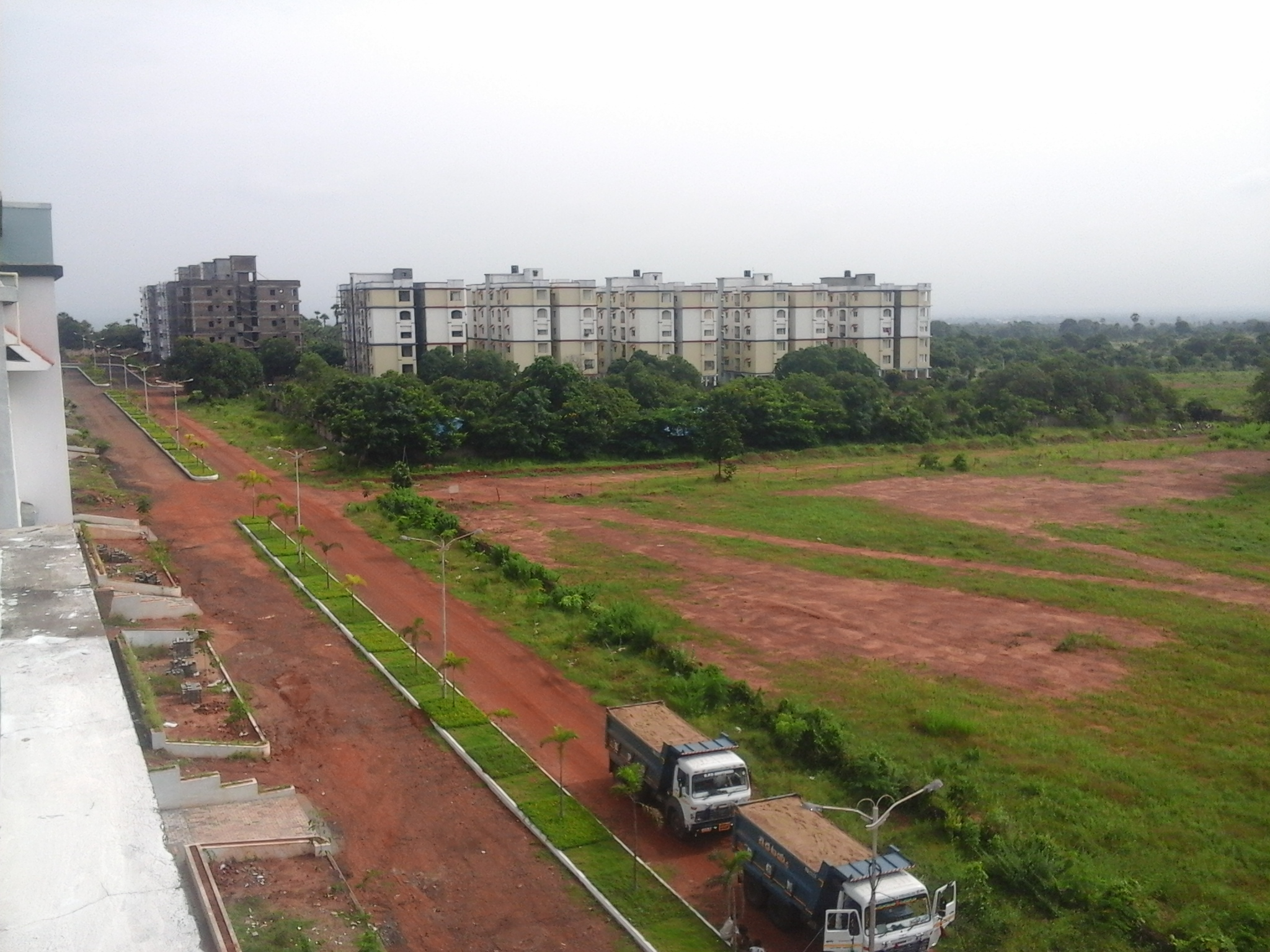 This file shows how Bridge County(integrated township near Diwancheruvu, Andhra Pradesh, India) looks like in September 2015. The picture shows the to-be-built cricket ground area, and the finished D-type two bedroom apartment complexes